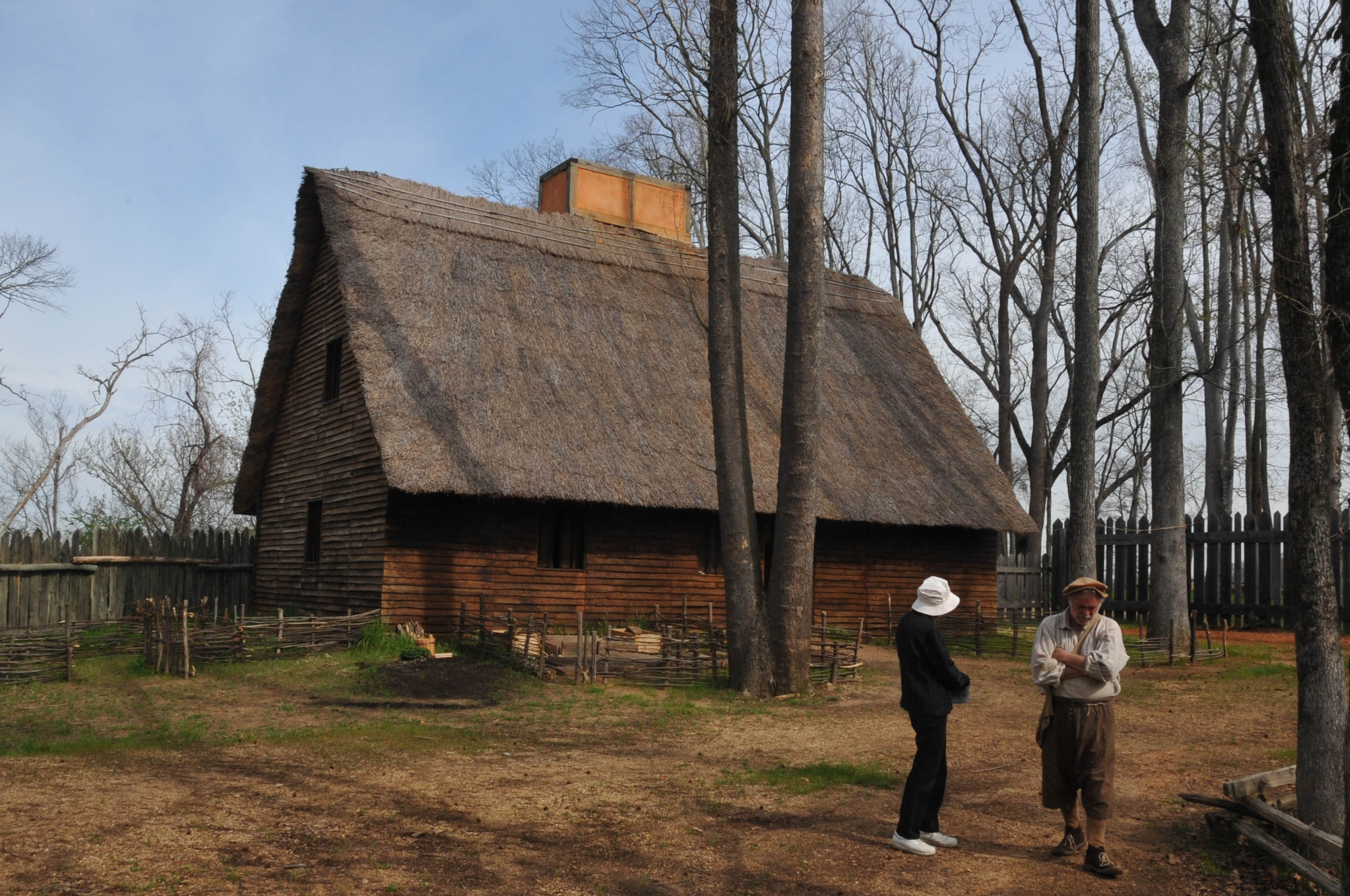 SETTLER’S HOUSE POSSIBLY ASSOCIATED WITH JOHN ROLFE